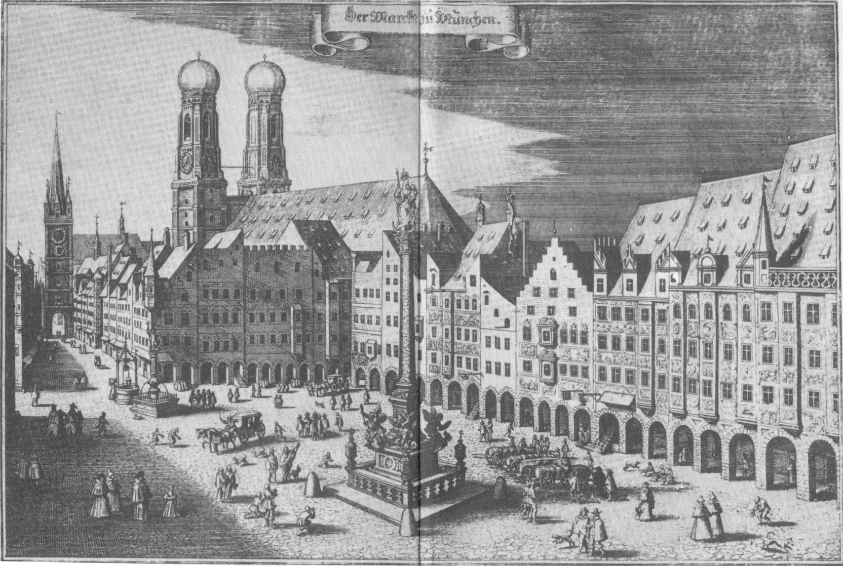 Part of Engraving by Matthäus Merian shows the Marketplace of Munich